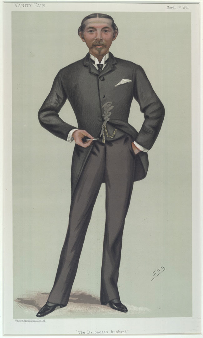 Men of the Day No.242: Caricature of Mr WLAB Burdett-Coutts. Caption reads: "The Baroness husband"